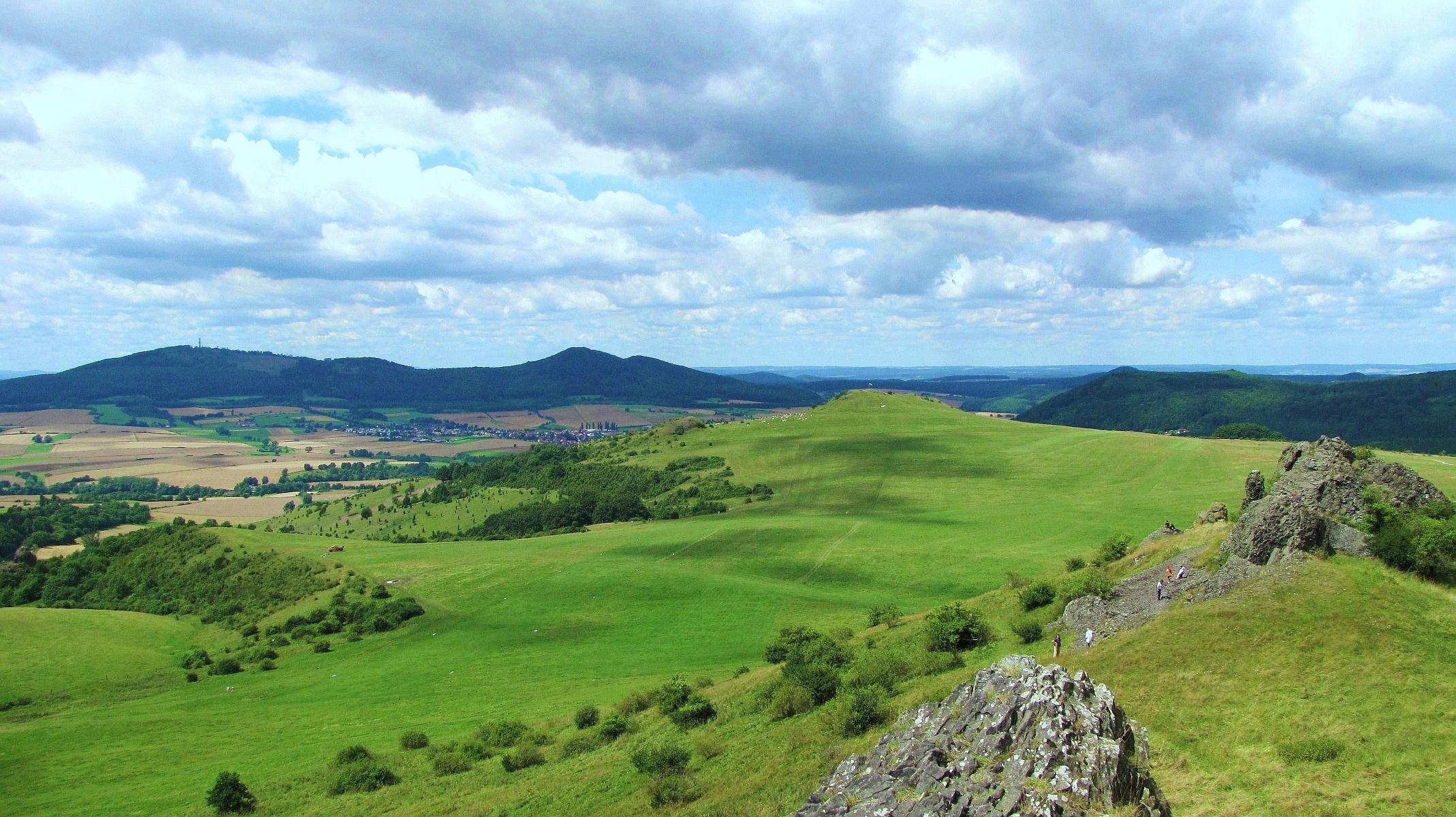 Germany / North Hesse / Helfensteine near cassel: viwe to northwest